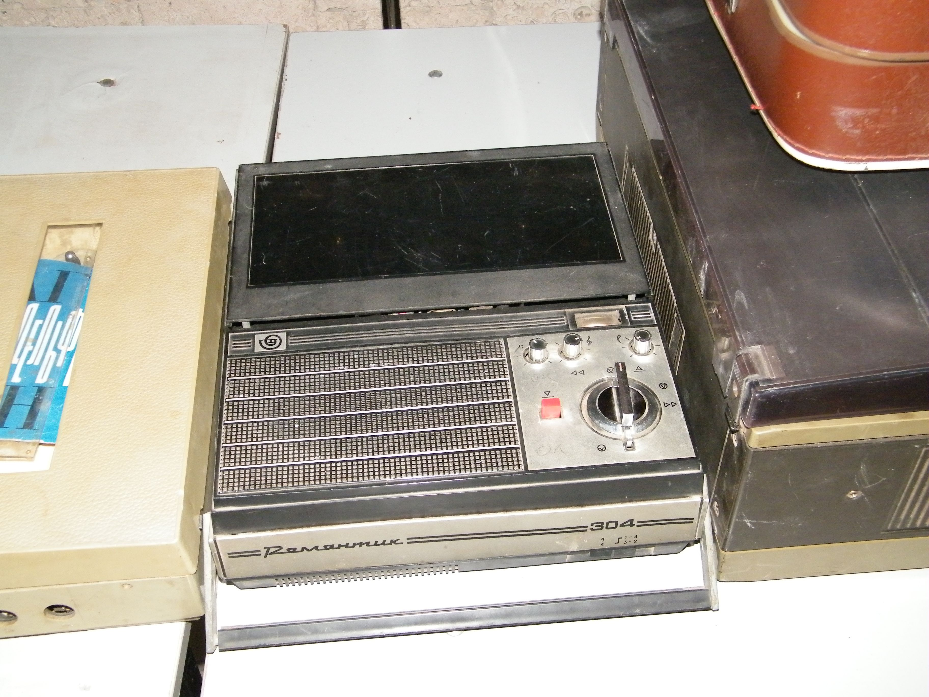 Romantik-304 portable reel-to-reel tape recorder. USSR, 1976